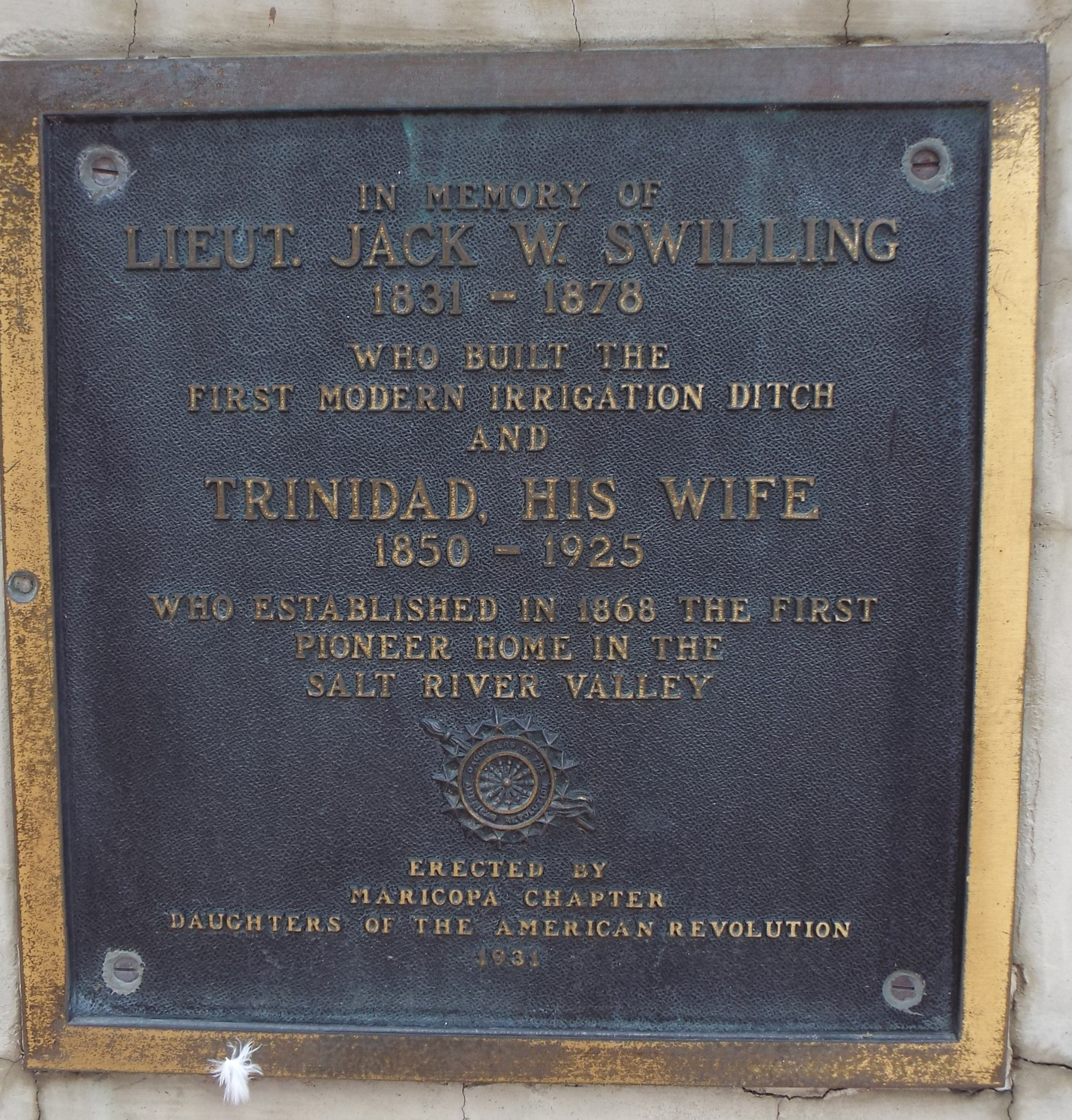 1931 plaque on a water fountain in front of the historic Phoenix Courthouse dedicated to the Jack and Trinidad Swilling, considered to be the "father" and "mother" of Phoenix